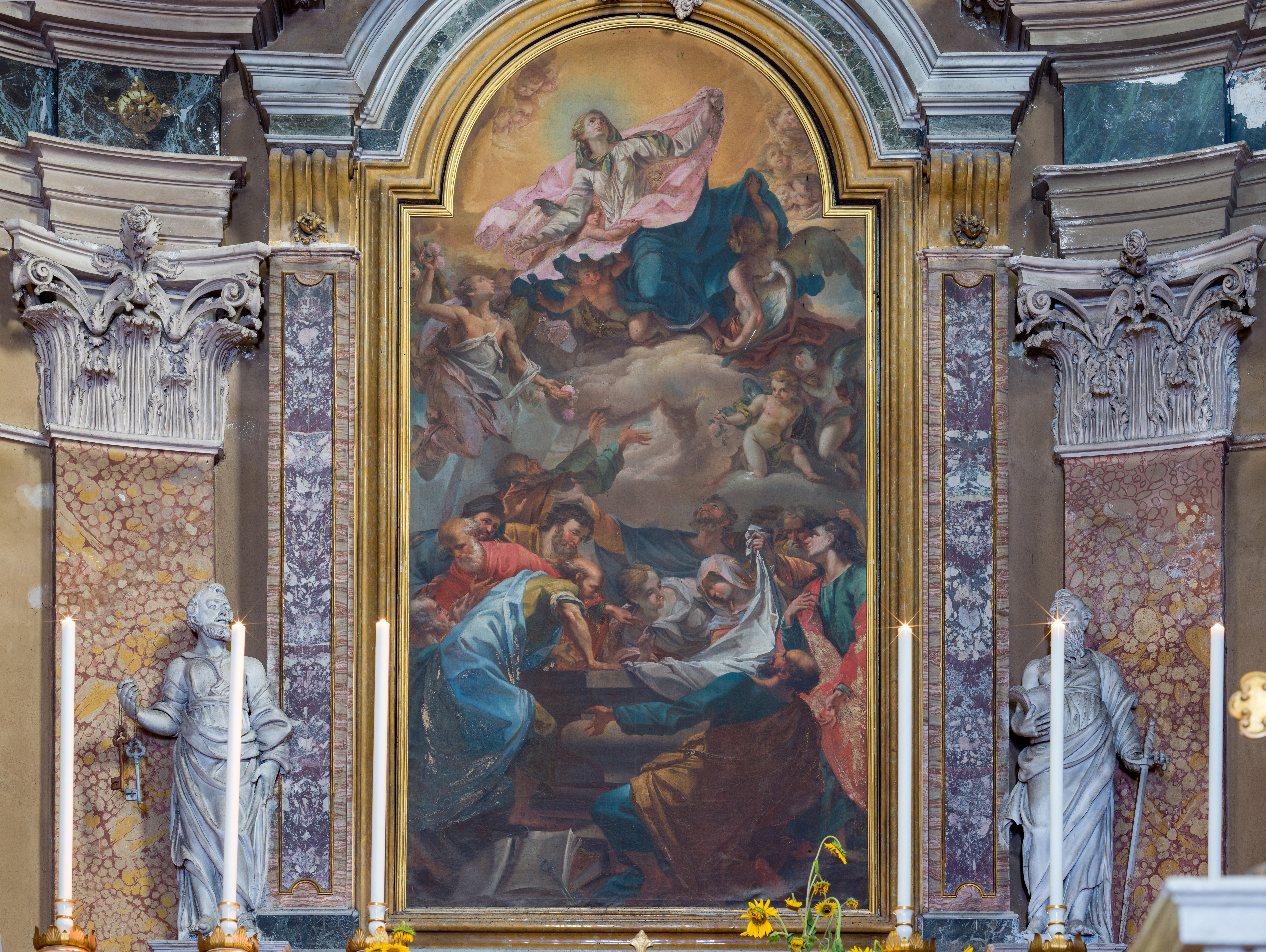 Altarpiece with Assumption of Mary and main altar in the Santa Maria Assunta church in Solarolo , Manerba del Garda.